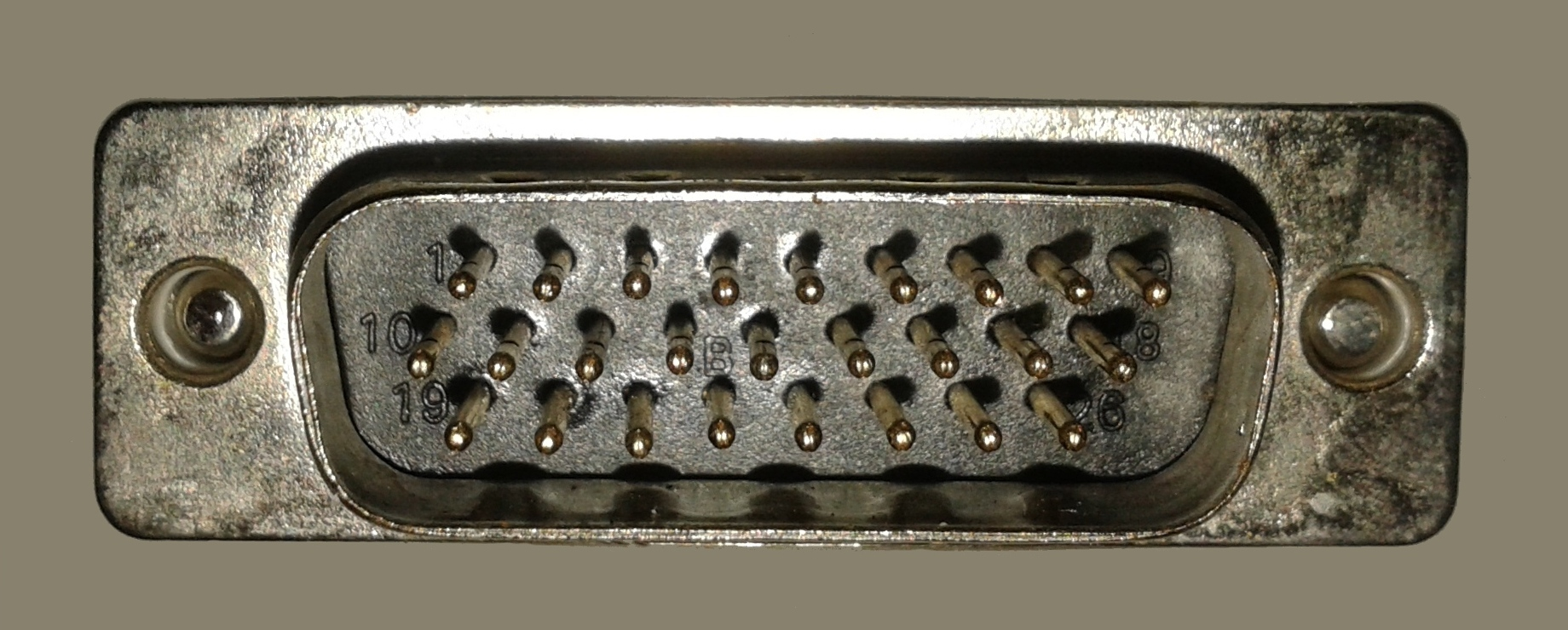 Eicon DA-26 male to DB-25 female connector, DB-25 end